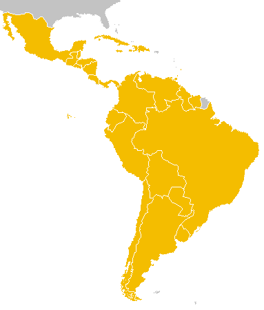 Copied from Wikipedia Latin America Map.